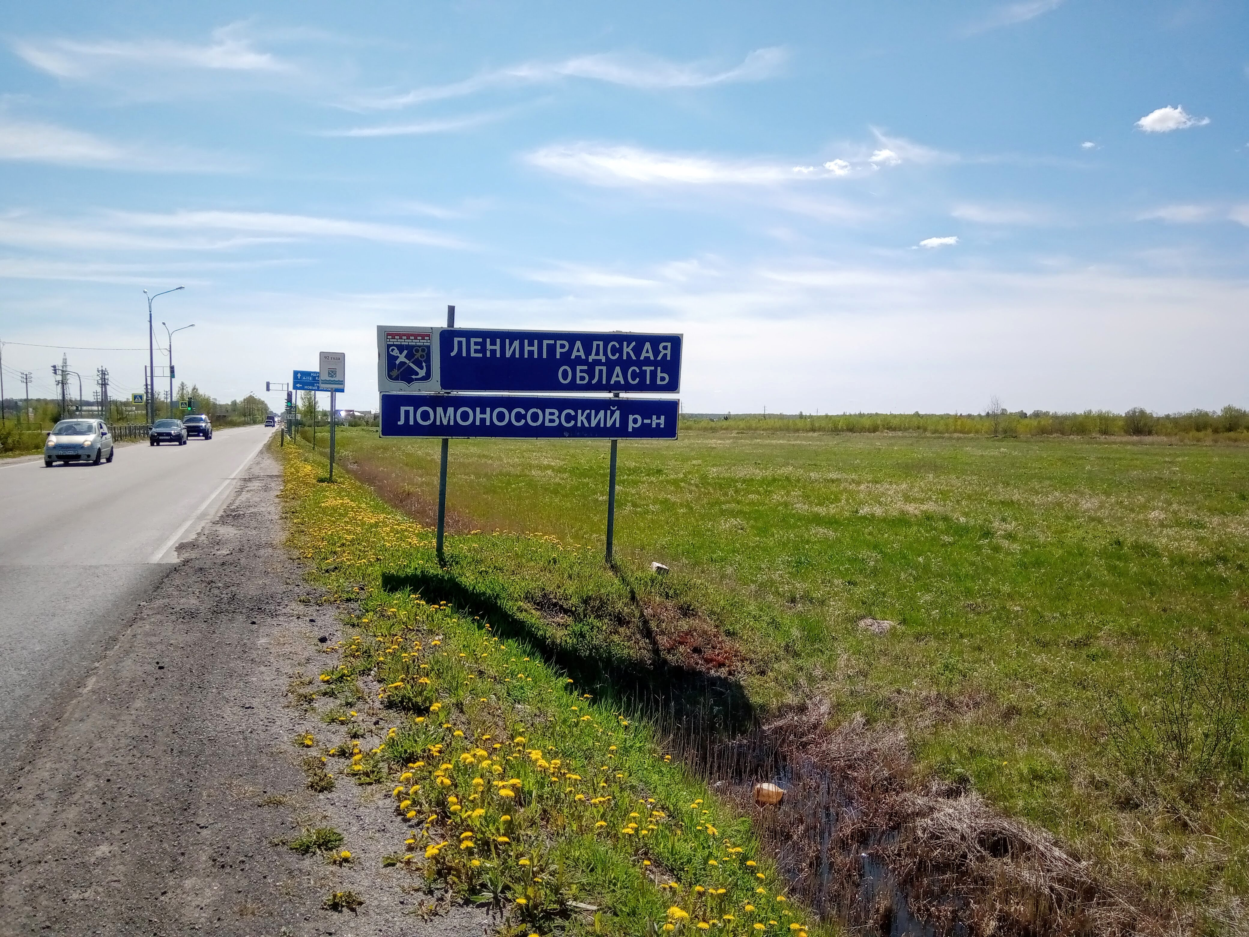 Lomonosov district Leningrad region boundary with New Peterhof